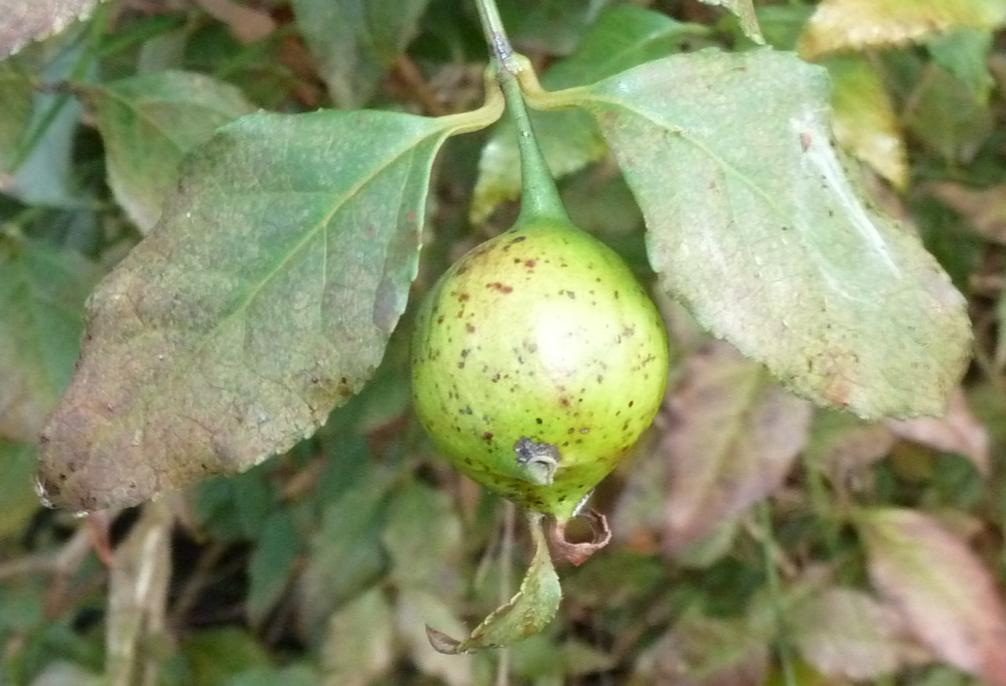 Gal on a Notsung, near Louwsburg, KwaZulu-Natal